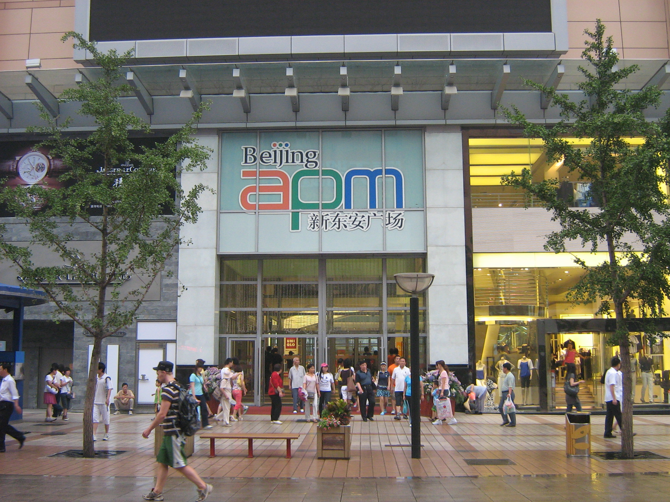 Beijing apm, a shopping mall at Wangfujing, Beijing, China